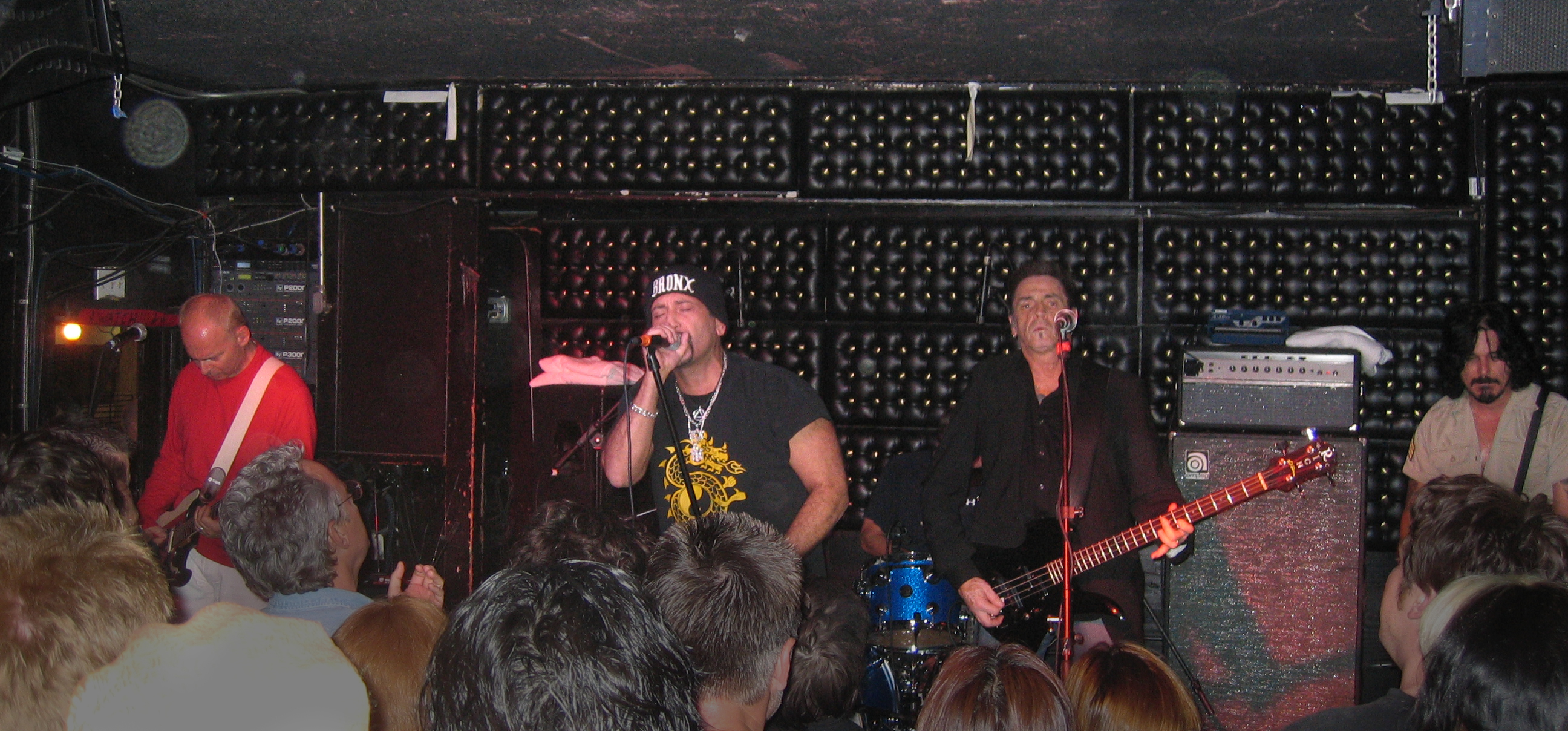 Current lineup of MC5.